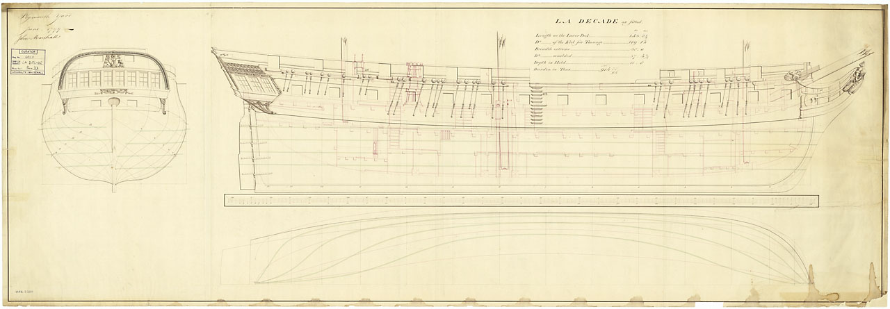 DECADE FL.1798 [FRENCH] lines & profile